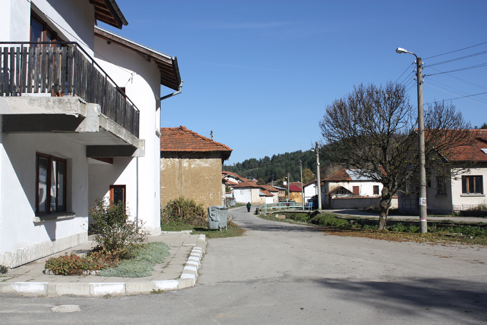 Shipochane main street